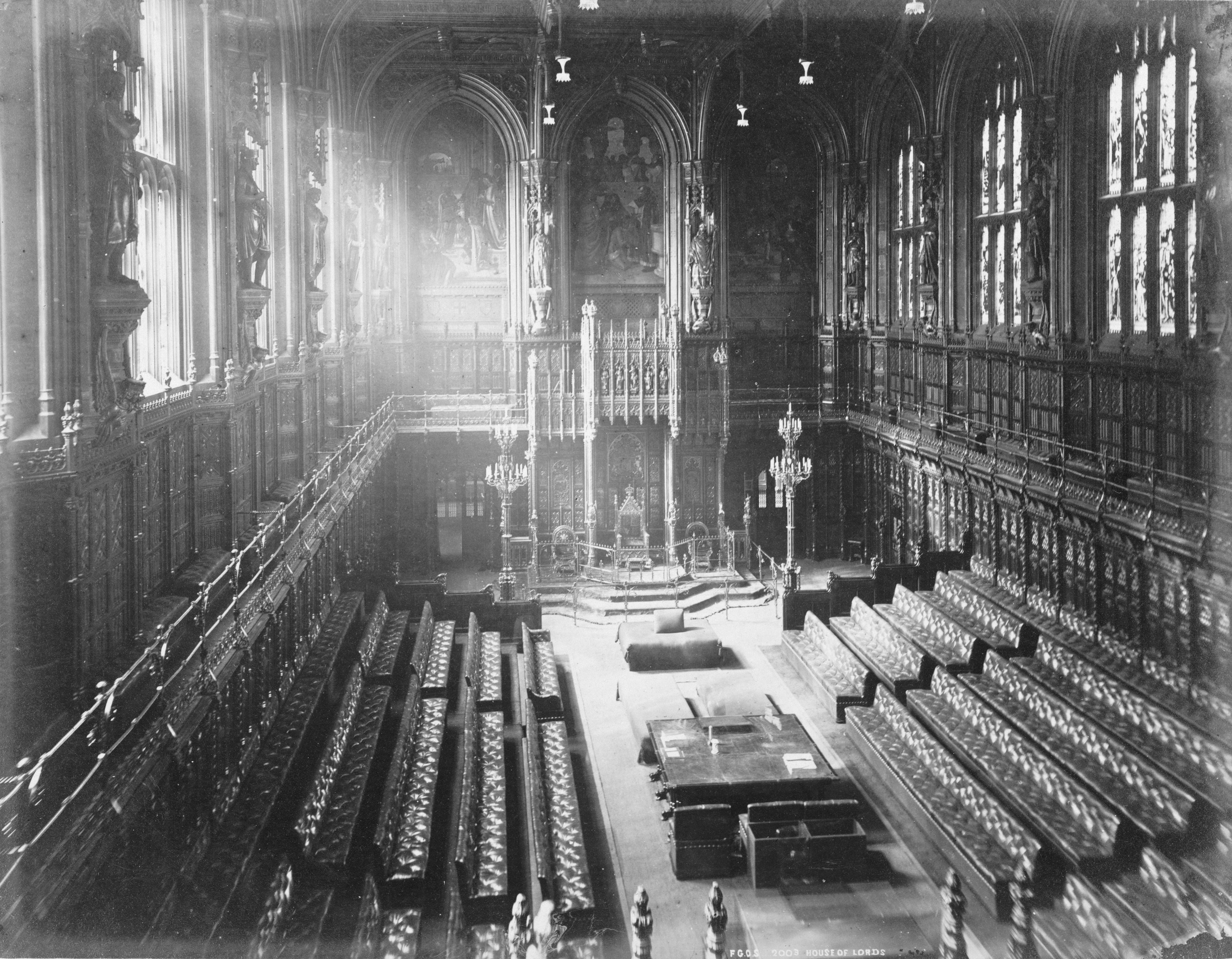 House of Lords, albumen print showing the Lords Chamber of the Palace of Westminster in London, England; photograph taken from the gallery on the north side of the chamber. The windows contain the original stained glass depicting the kings and queens of the United Kingdom and its predecessor states.